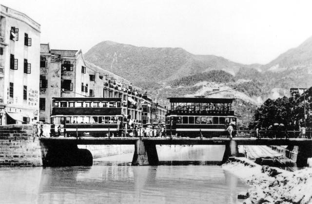 Bridge over Bowrington Canal in the 1920s